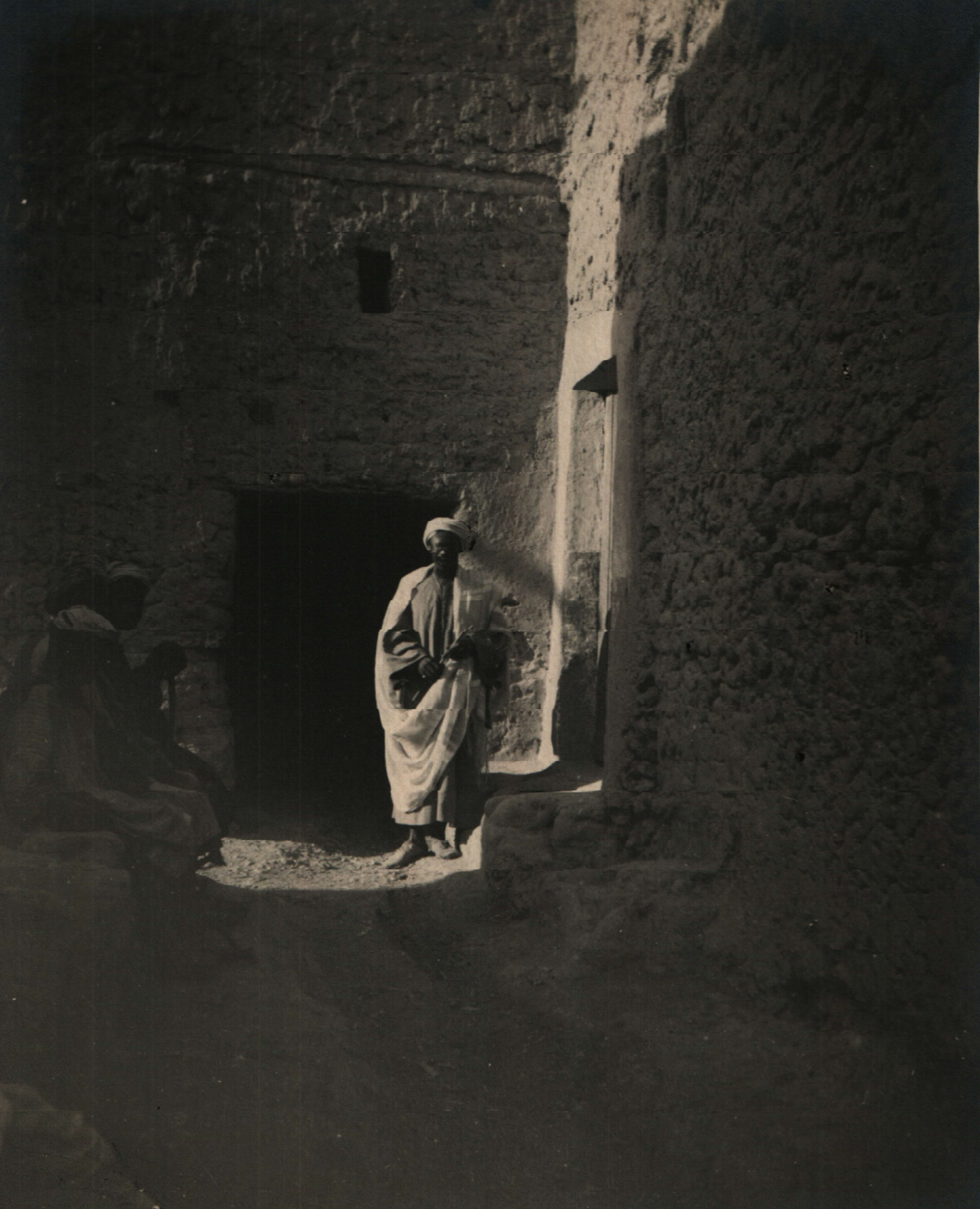 Views and photos of the Sahara desert and other regions in Africa. Narrow street entrance in Béchar, Algeria.